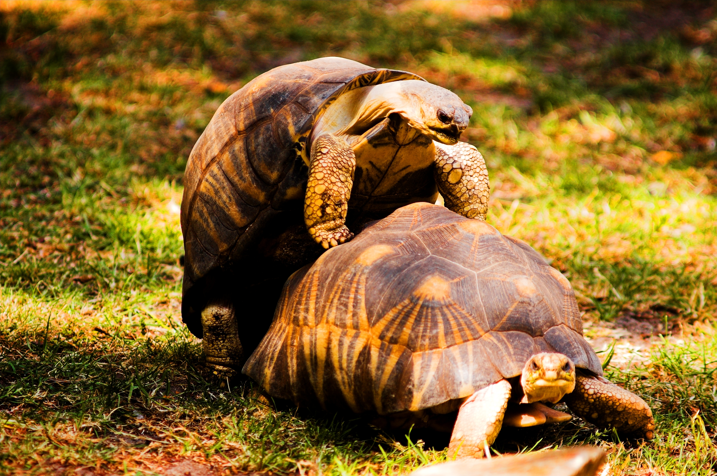 Radiated tortoise Pictures taken in Artis Zoo, Amsterdam - Nederlands